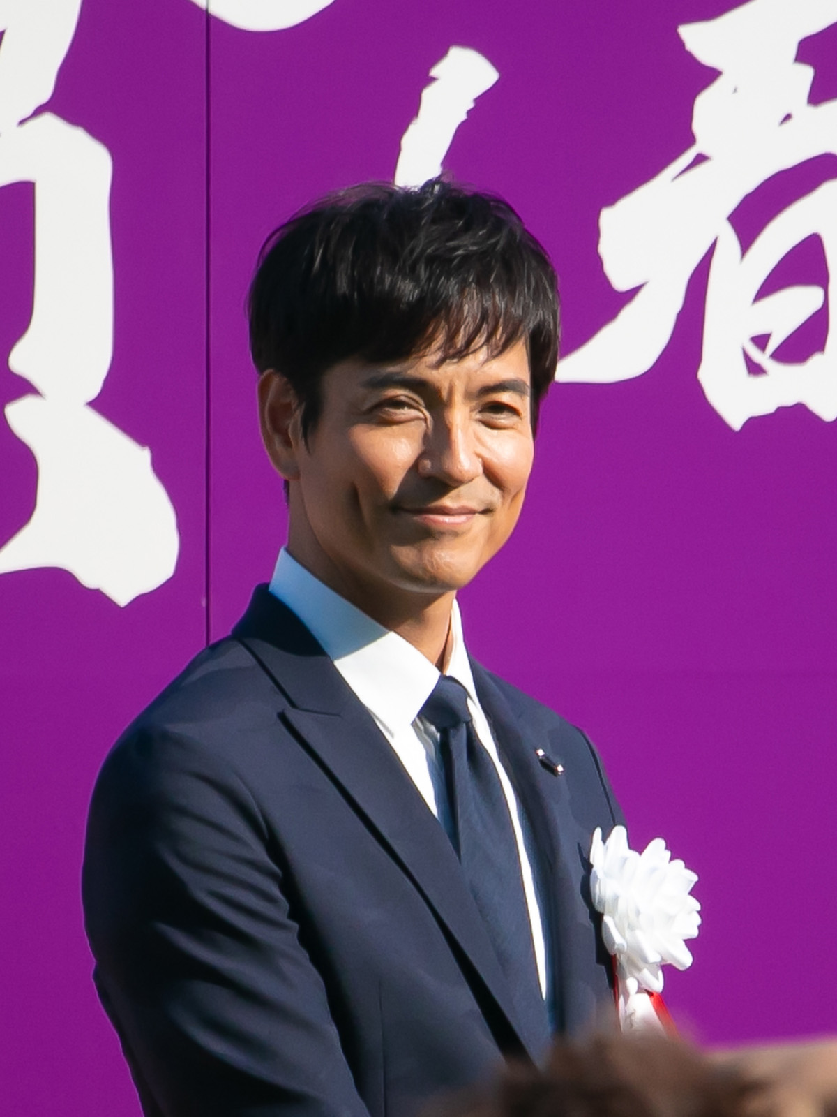 Kazuki Sawamura.